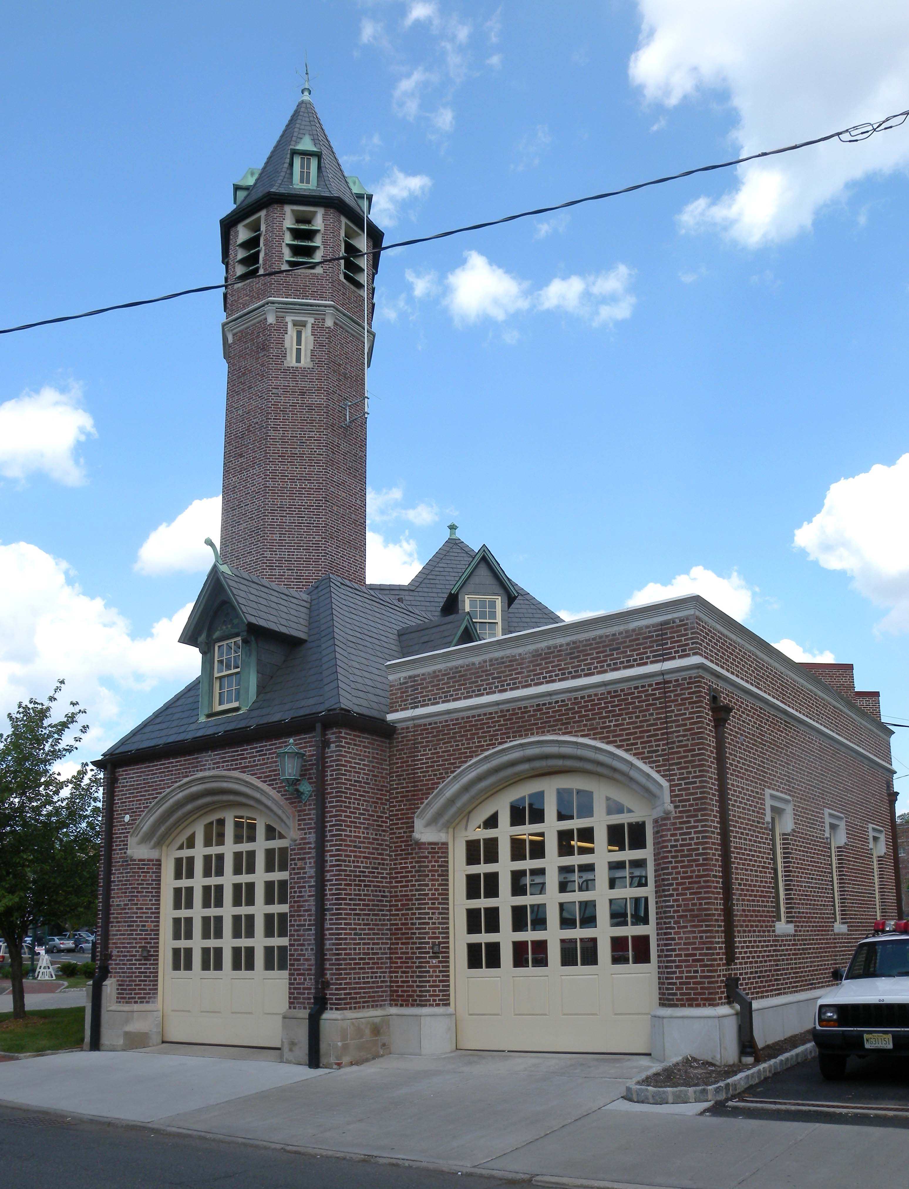 Looking east at South Orange, New Jersey firehouse on a sunny early afternoon.